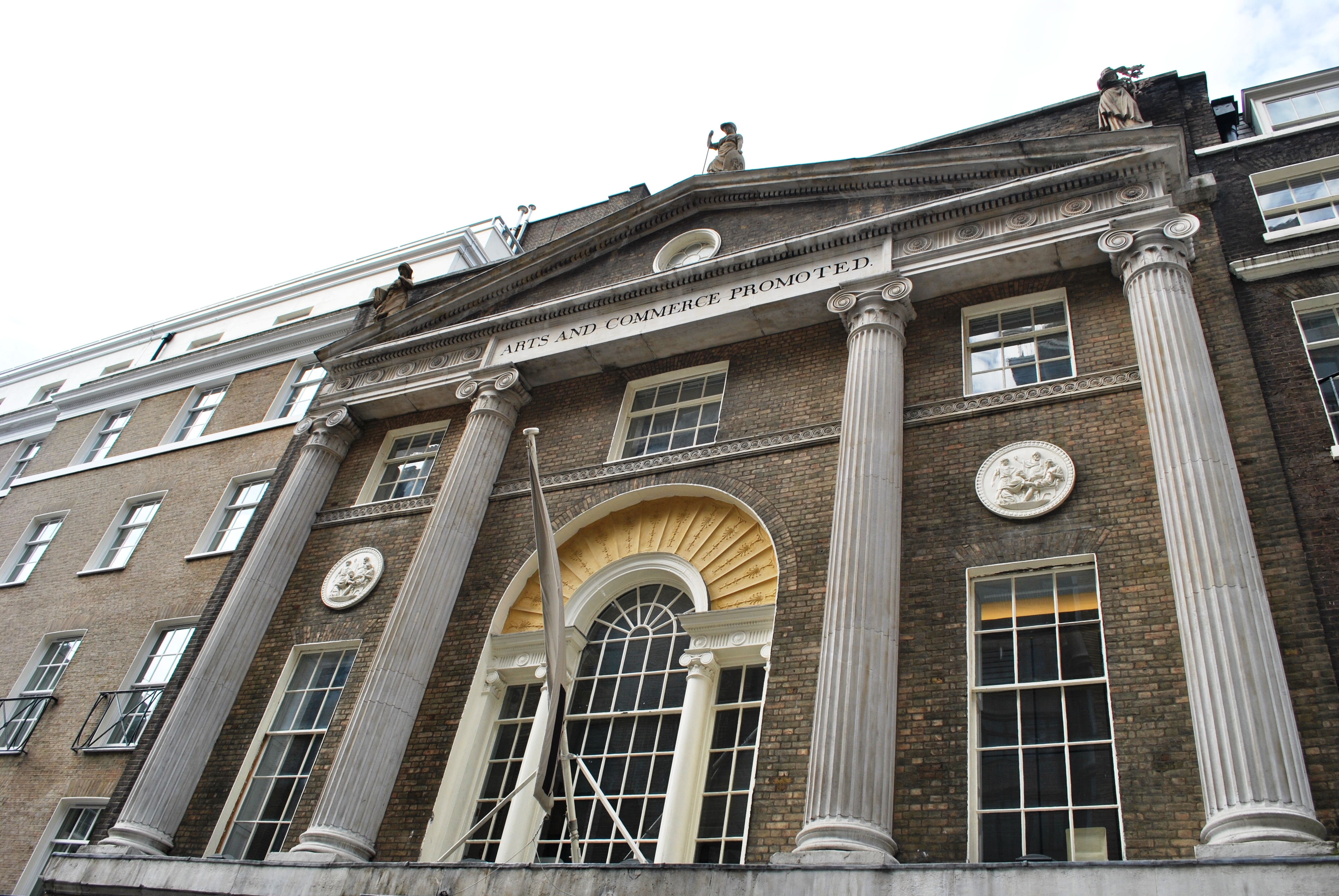 Royal Society of Arts